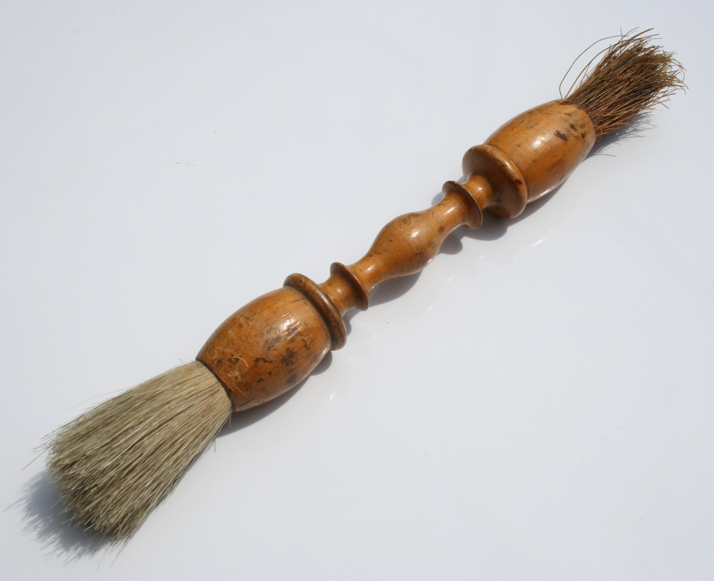 Brush for books (about 1920)